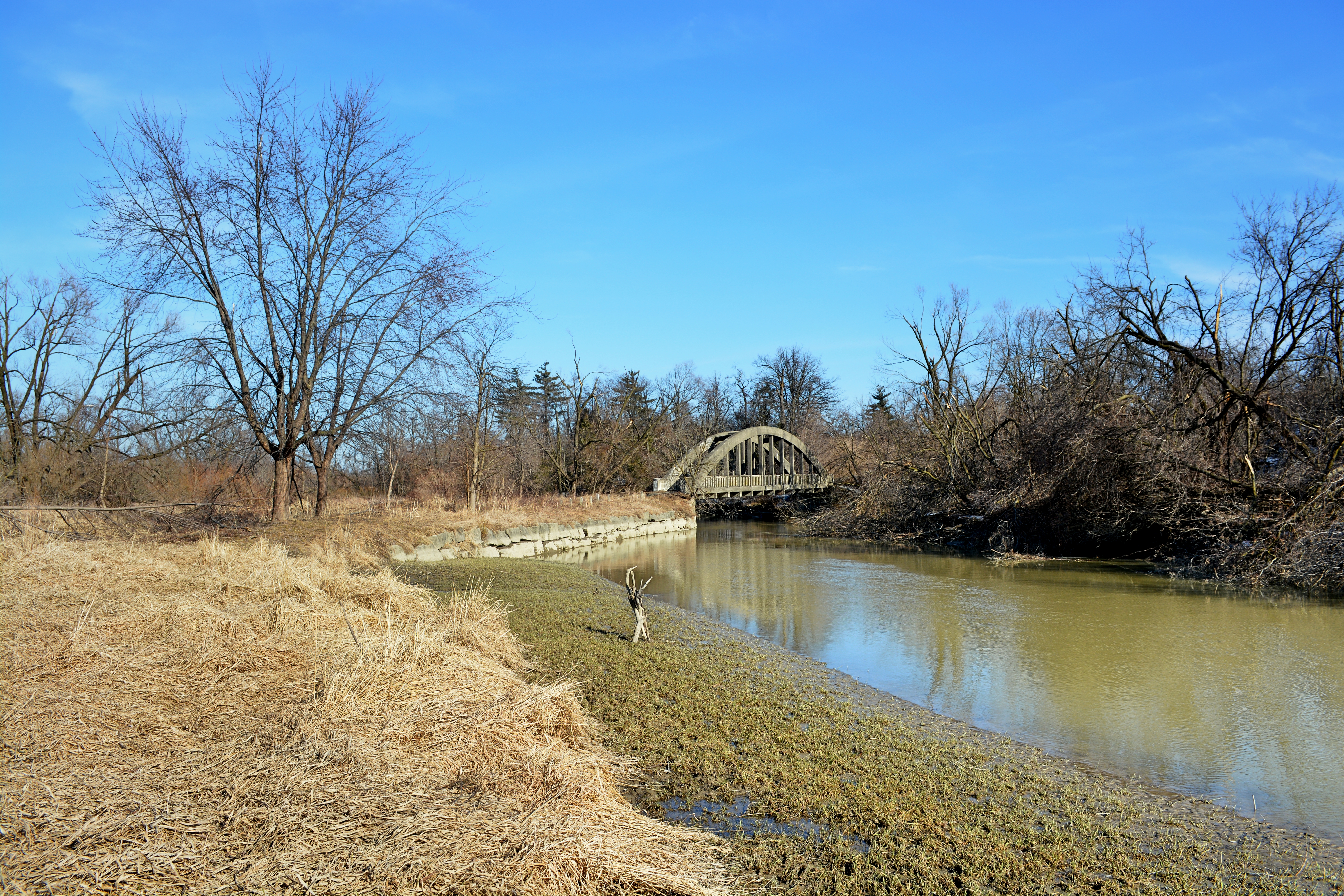 The Wooden Bridge across the West Humber River in Claireville Conservation Area, Brampton, Ontario, Canada